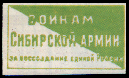 Revenue stamp of voluntary gathering to the aid of soldiers of the Siberian army, Barnaul